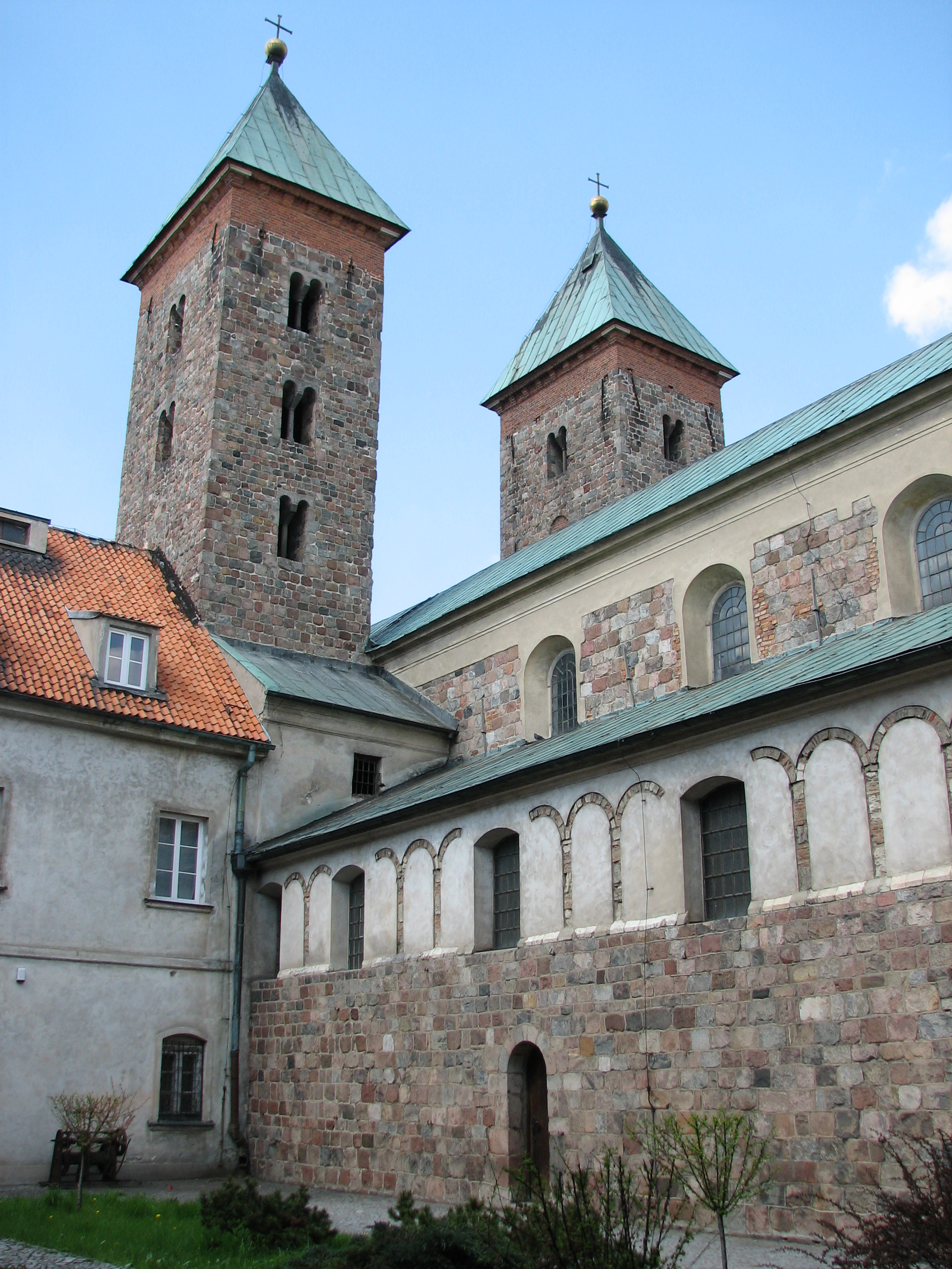 Romanesque church in Czerwińsk nad Wisłą.